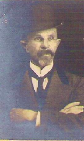 Photo the Brazilian Mechanical Engineer and Inventor Evaristo Conrado Engelberg.